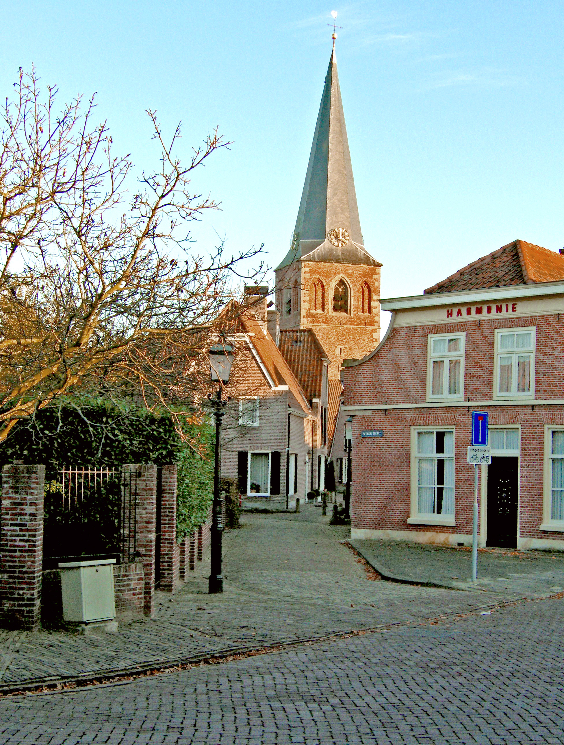 The Oude Kerk in BorneLëtzebuergesch: Sujet:D'Kierch zu Borne Source:Fotograf de Commons-User Tubantia; gephotoshopt vum User:Cornischong